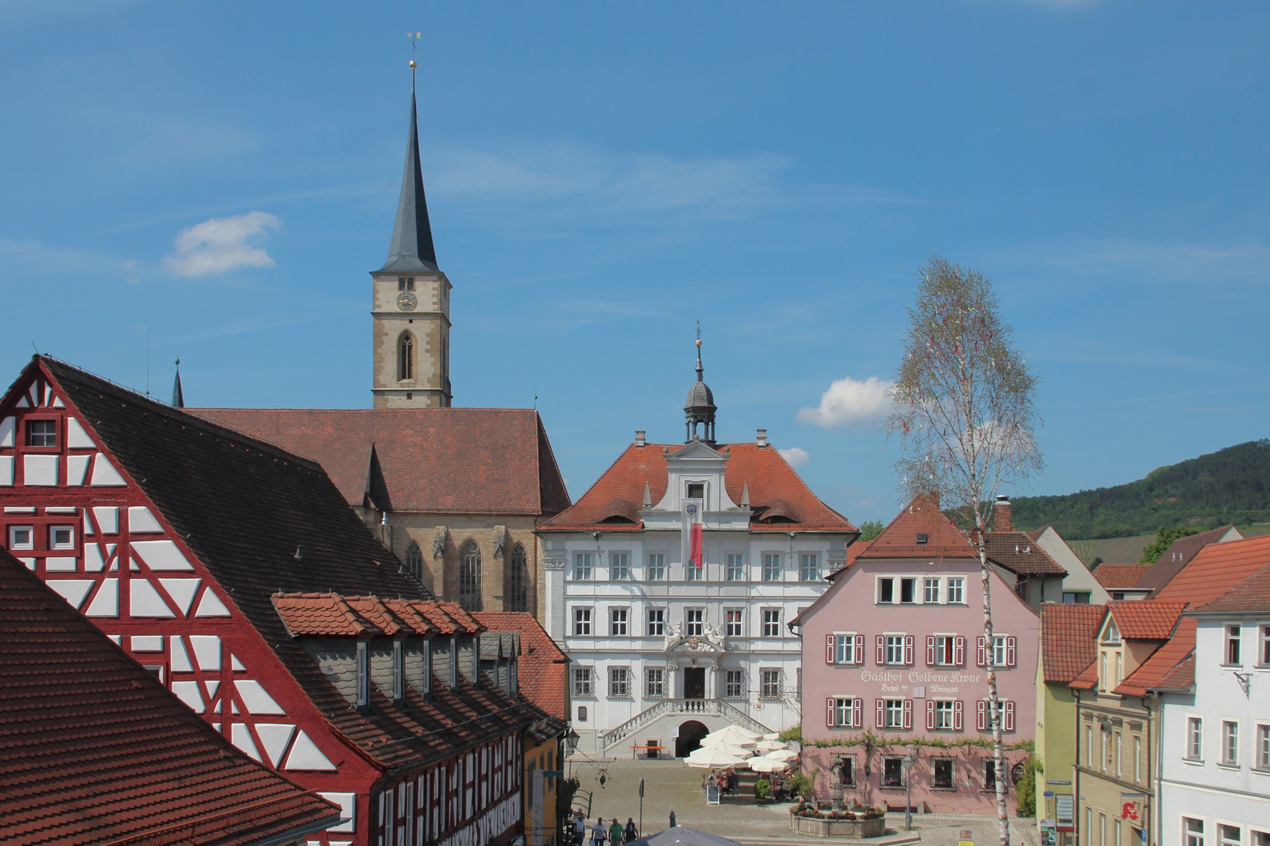 Iphofen market square